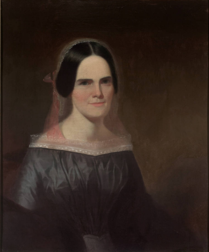 Portrait of Mrs. William F. Switzler (Mary Jane Royall), by George Caleb Bingham, State Historical Society of Missouri